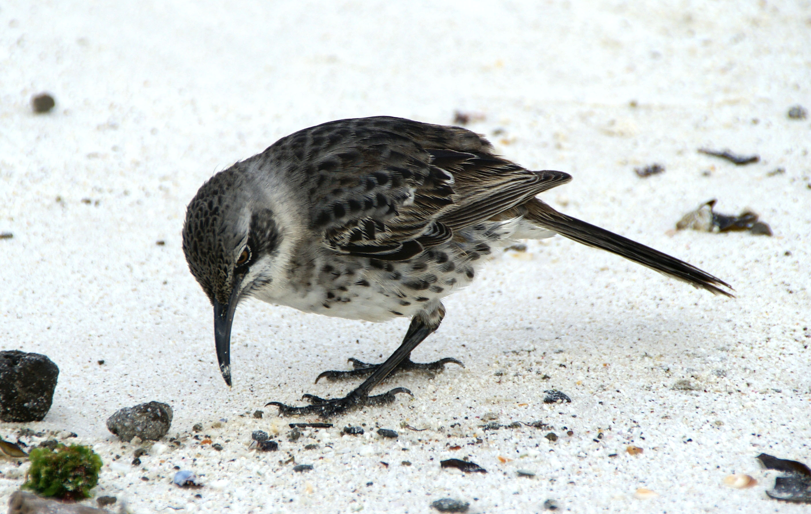 Hood Mockingbird (Nesomimus macdonaldi) or Española Mockingbird.